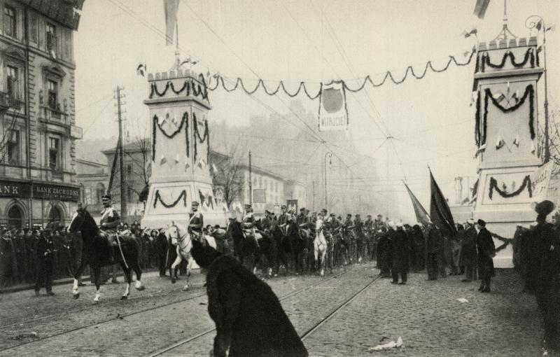 Entrance of Polish Legions (2nd Brigade) in Warsaw in 1916.